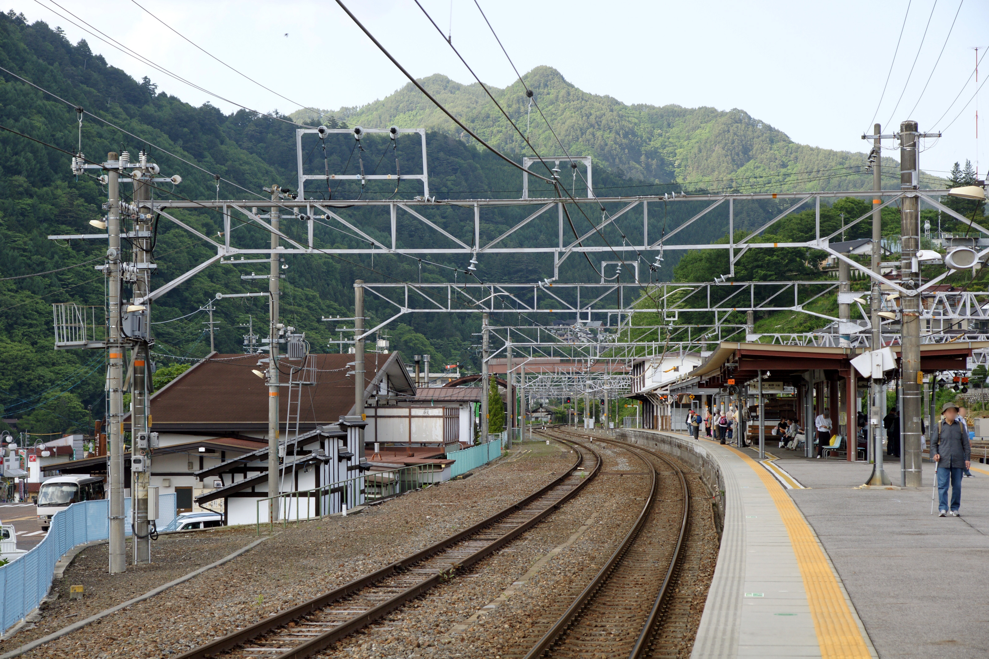 Kiso-fukushima Station, Kiso, Nagano prefecture, Japan